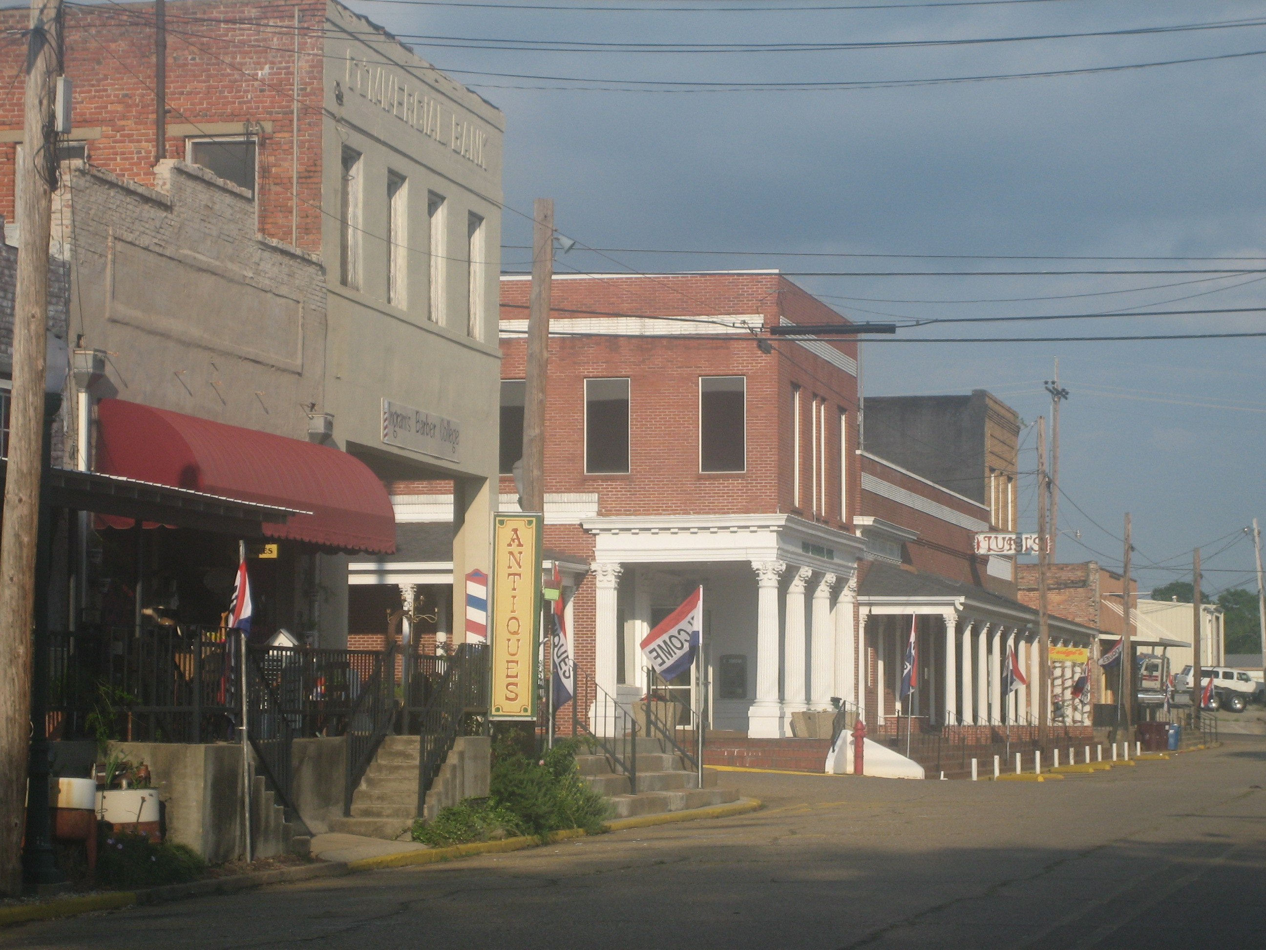 I took photo on May 25, 2009.Billy Hathorn (talk) 03:26, 30 May 2009 (UTC)